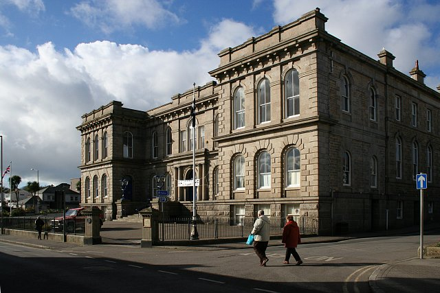 St John's Hall, Penzance. The west wing of this hall used to house the Cornwall Geological Museum which was closed a few years ago and the collection scattered. This caused much local controversy.